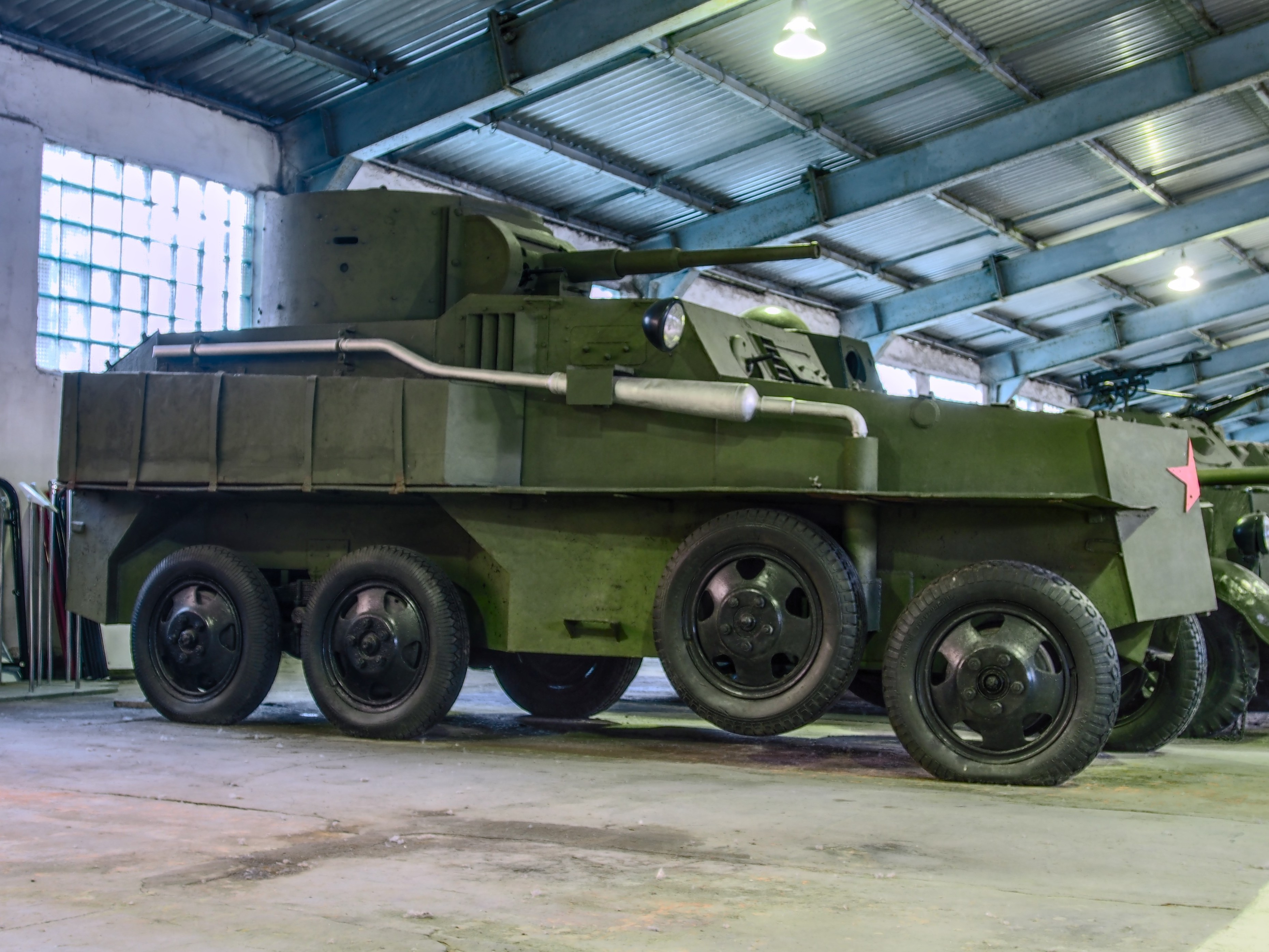 Soviet amphibious armored car PB-4 in the Kubinka tank museum. Fusion F.3 (HDR; Mode 1)